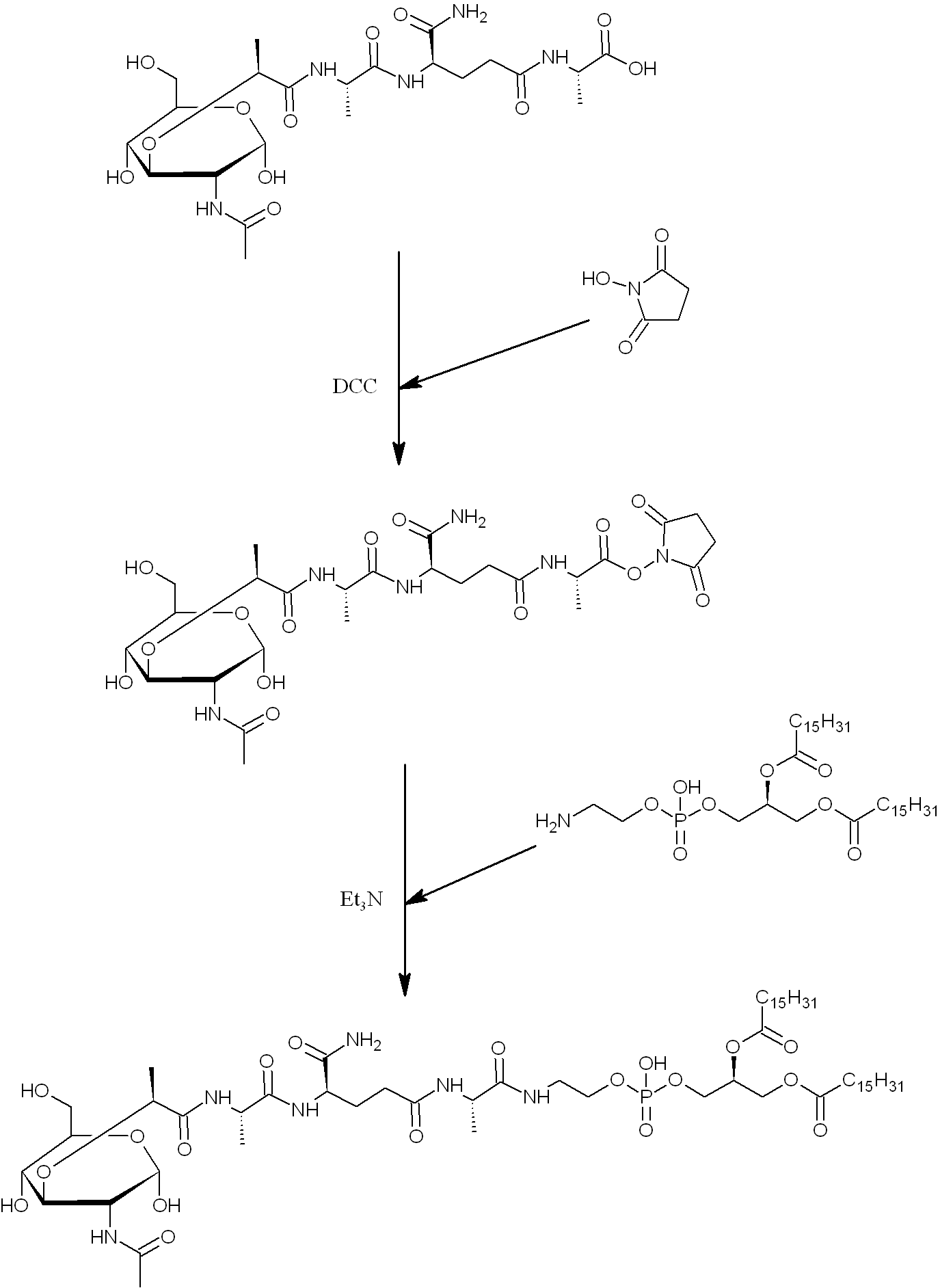 Chart of mifamurtide synthesis